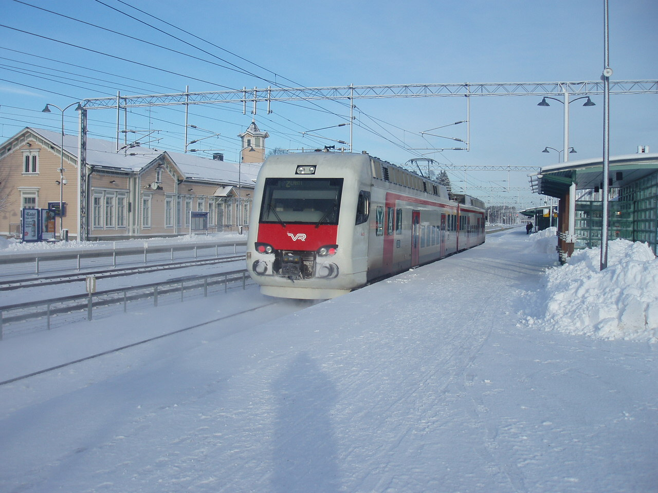 VR Class Sm4 electric multiple unit at Kerava railway station in Kerava, Finland